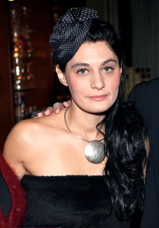 Labina Mitevska, Macedonian actress